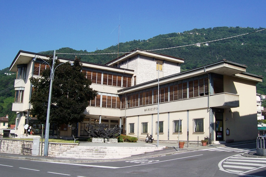 Town hall. Pisogne, Val Camonica